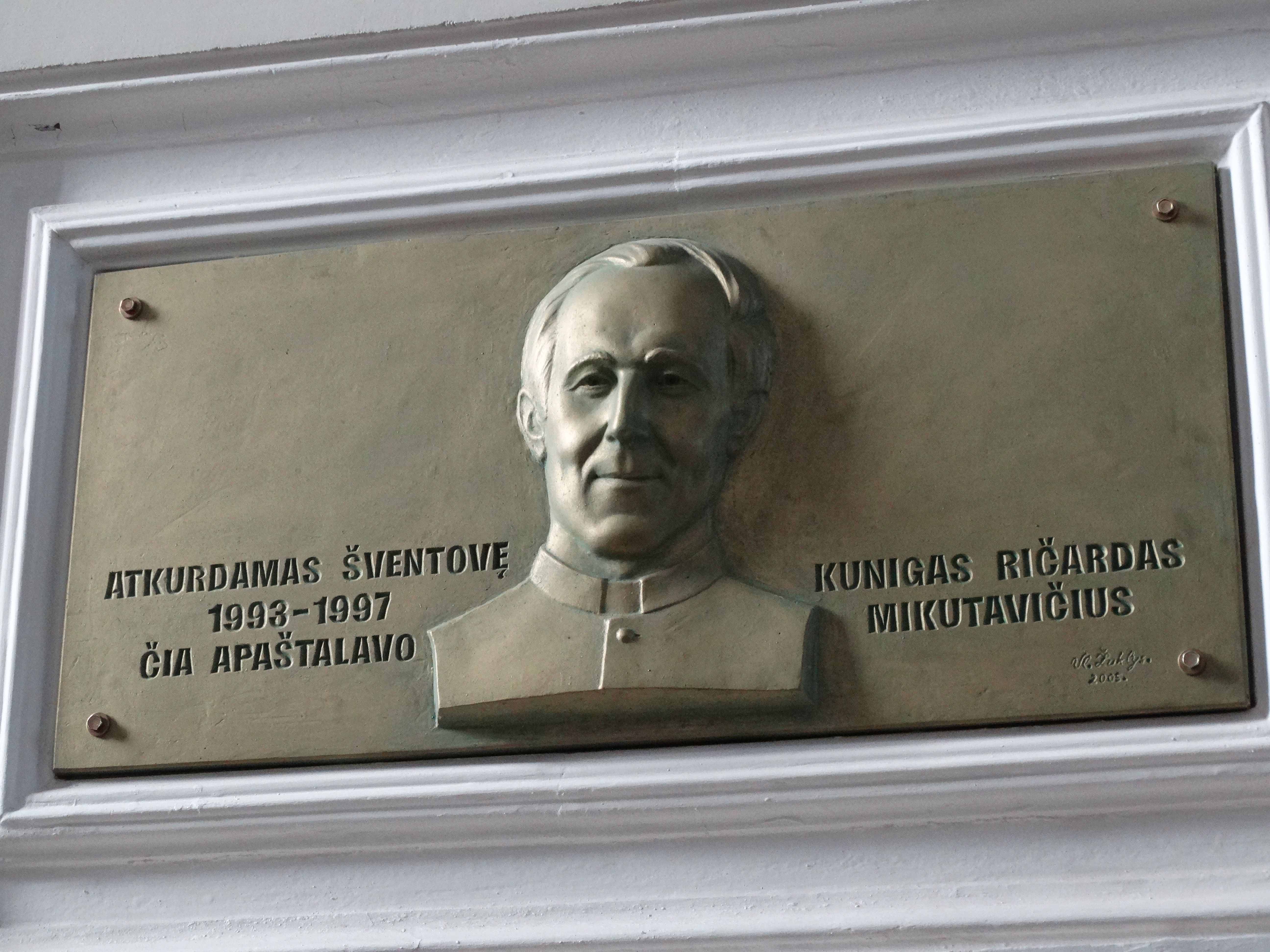 Memorial plaque to Ričardas Mikutavičius, St. Michael the Archangel Church, Kaunas, Lithuania